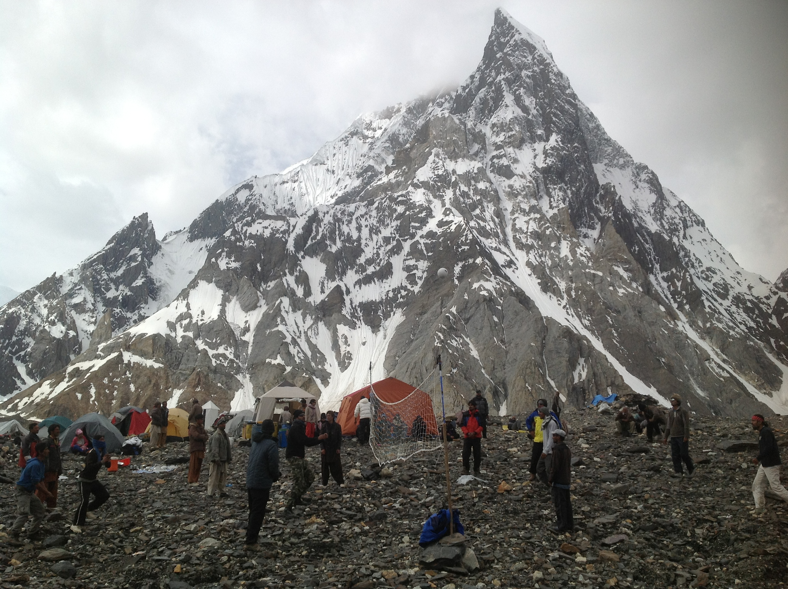 Camp at Concordia with Mitre Peak in the background